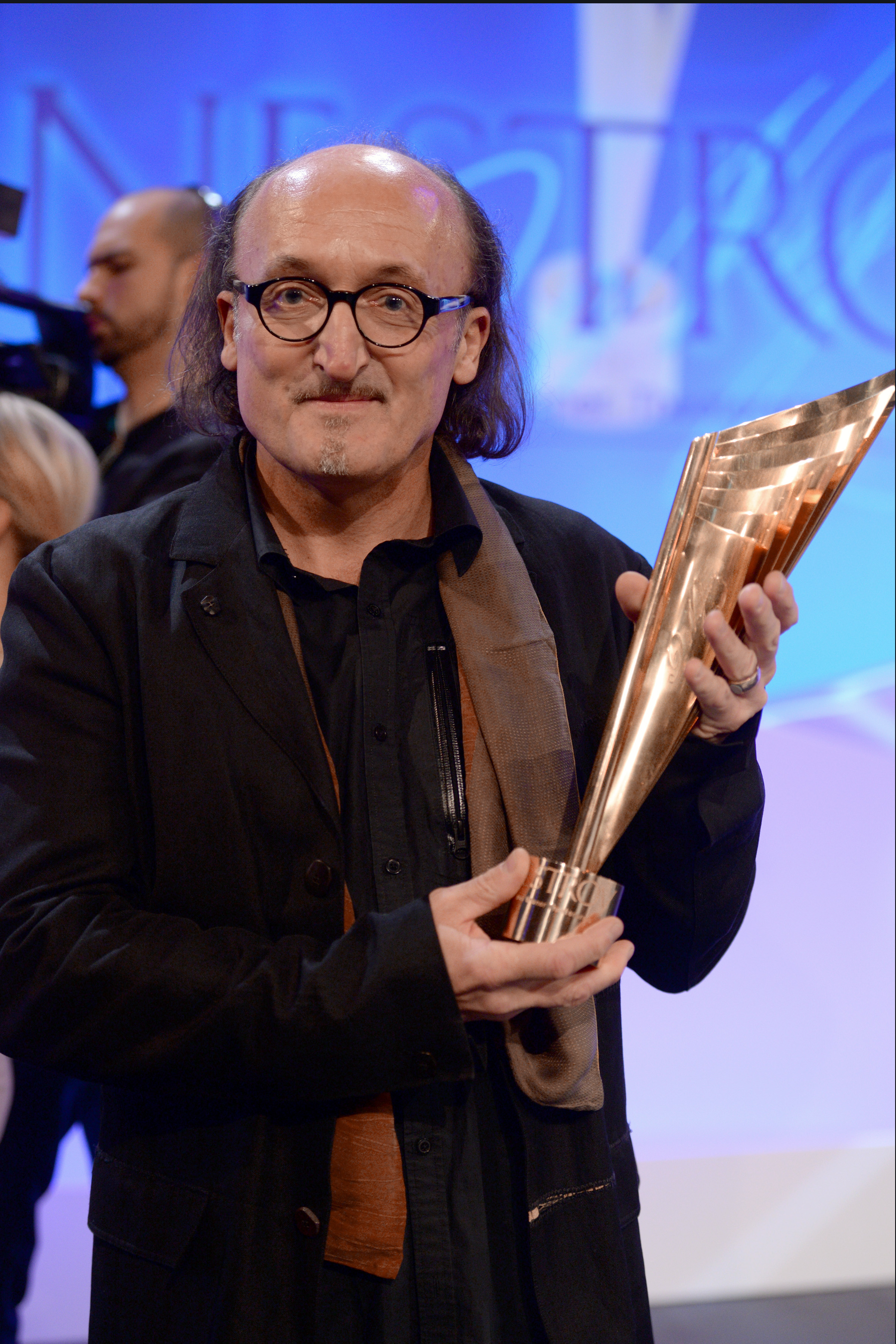 Hans Kudlich - Nestroy Theatre Awards 2014 at Wiener Stadthalle (Vienna, Austria).